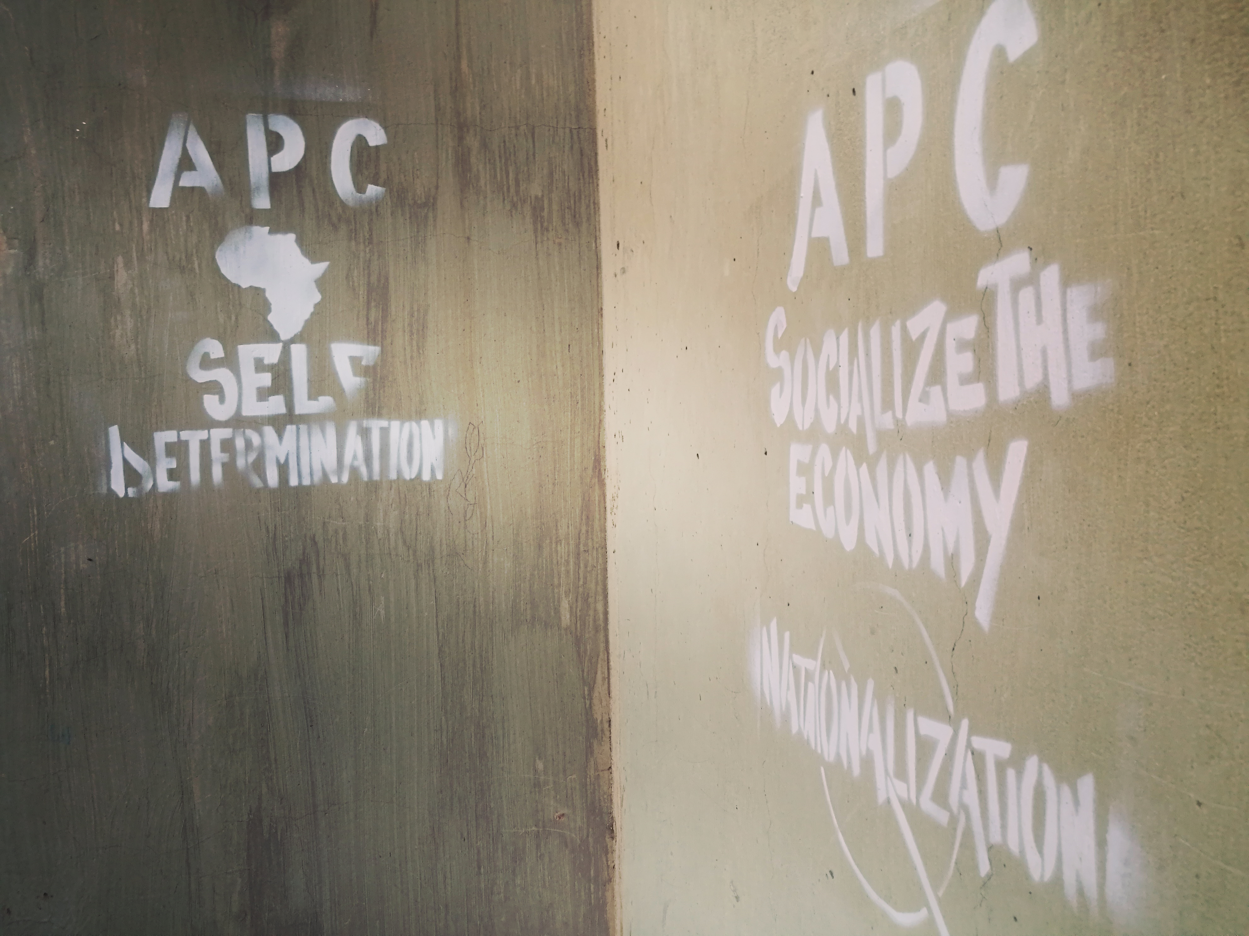 This is an image of "African people at work" from South Africa